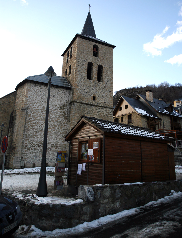 Parish church of Panticosa in the Province of Huesca (Spain)